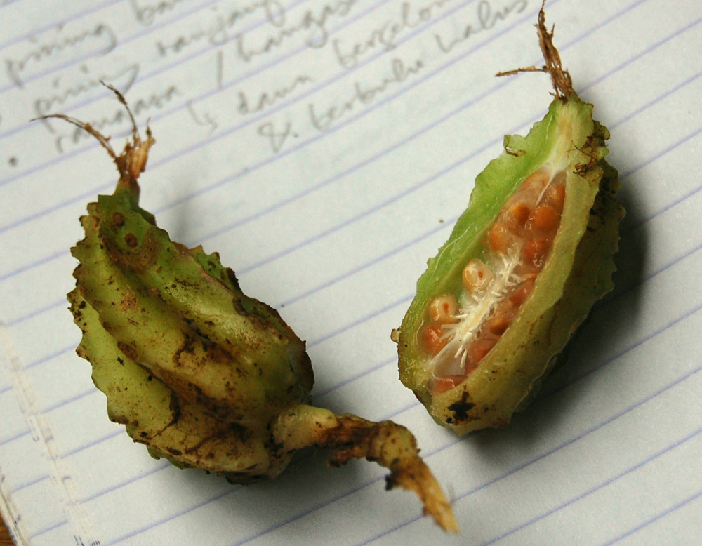 Fruit of Amomum cf. dealbatum, opened to show its seeds and arils. From Sukabumi, West Java.